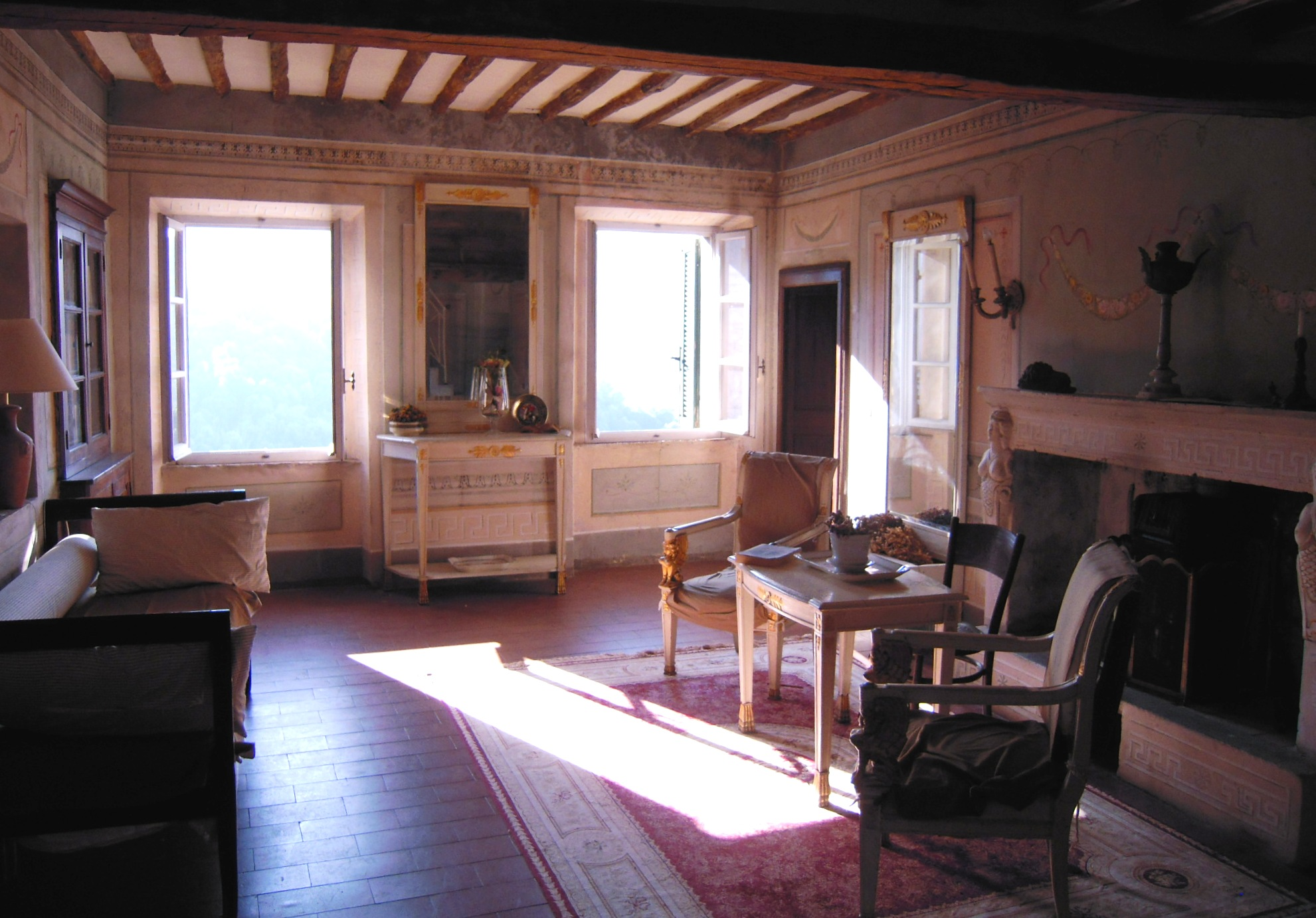 House of XVIII century in Elba Island